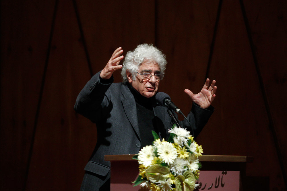 Commemoration Late Gurgen Movsessian (25 November 2014)